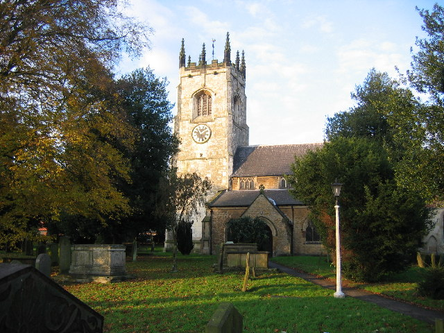 St Andrew's Church, Kirk Ella, East Riding of Yorkshire, England.This view of the church looking north from TA0203729680 which is just on the west edge of the grid square. The church has a ring of eight bells which are rung from the ground floor.